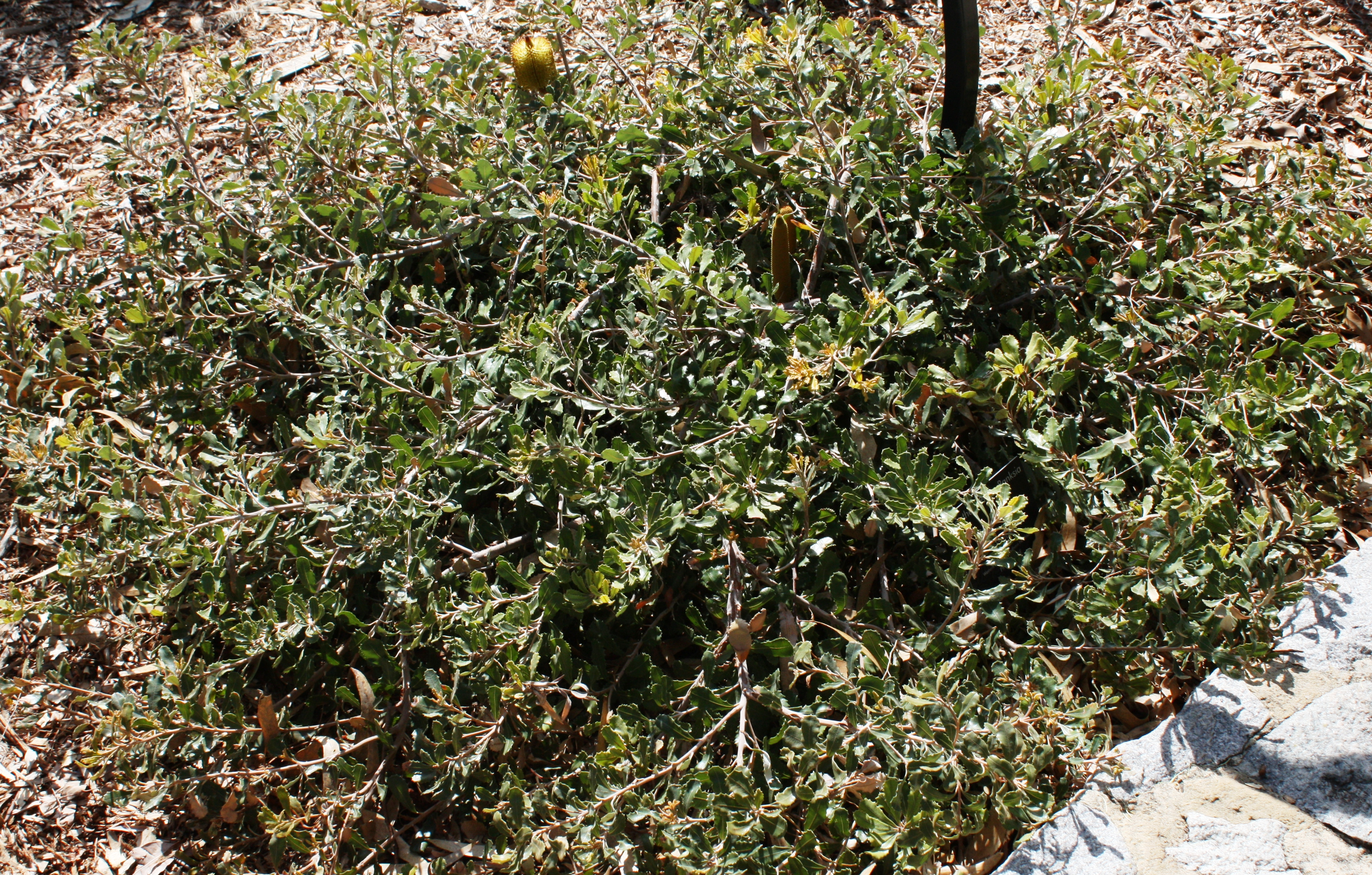 Prostrate form of Banksia media, in cultivation, Kings Park, Perth, Western Australia